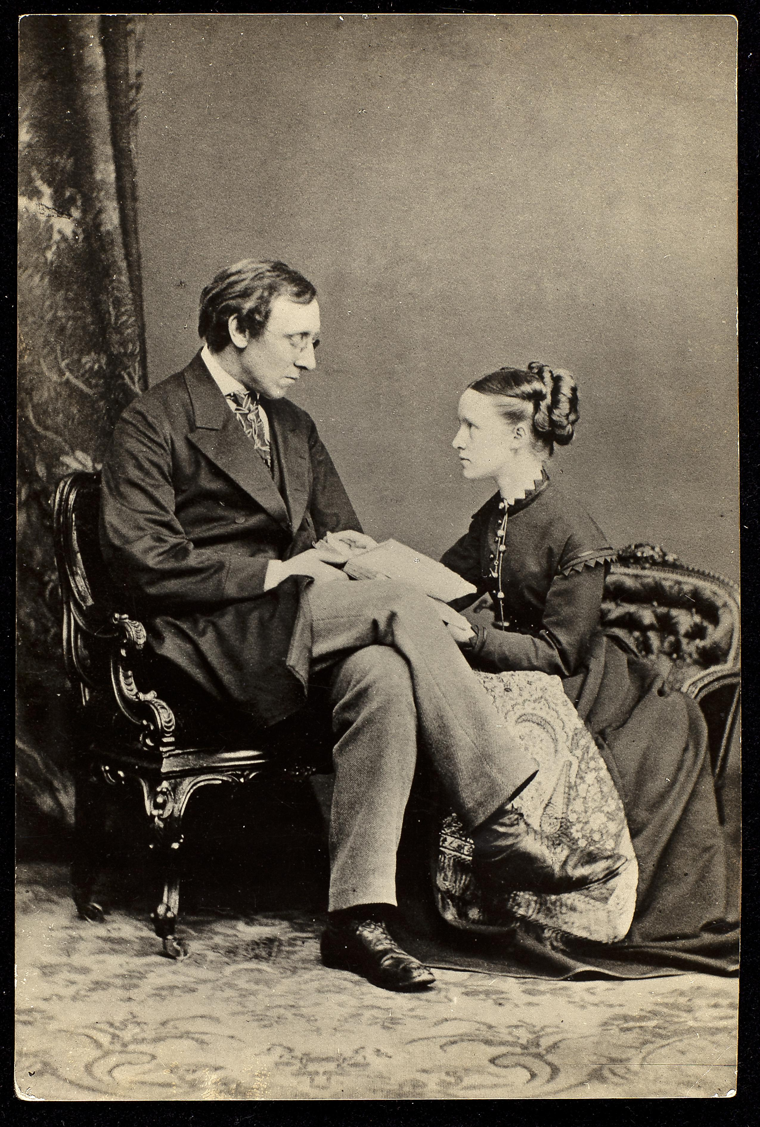 TWL/2004/10